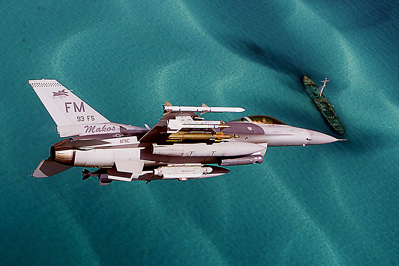 A 482nd Fighter Wing 93rd Fighter Squadron Lockheed F-16C Fighting Falcon carries an Aim-120, and Aim-9 air-to-air missiles, a single GBU-12, ALQ-131 Jamming pod and a Lighting Targeting pod June 11, 2001, over Homestead Air Reserve Base, Fla. The aircraft is normally based at Homestead Air Reserve Station and was flying near the Southern Flordia coastline. (U.S. Air Force photo by Master Sgt. Joe Cupido) (Released)